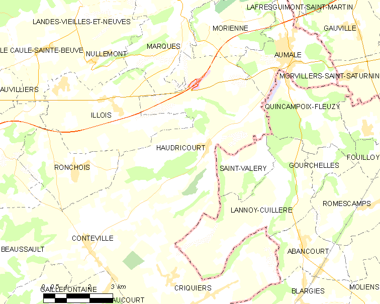 Map of French municipality Haudricourt